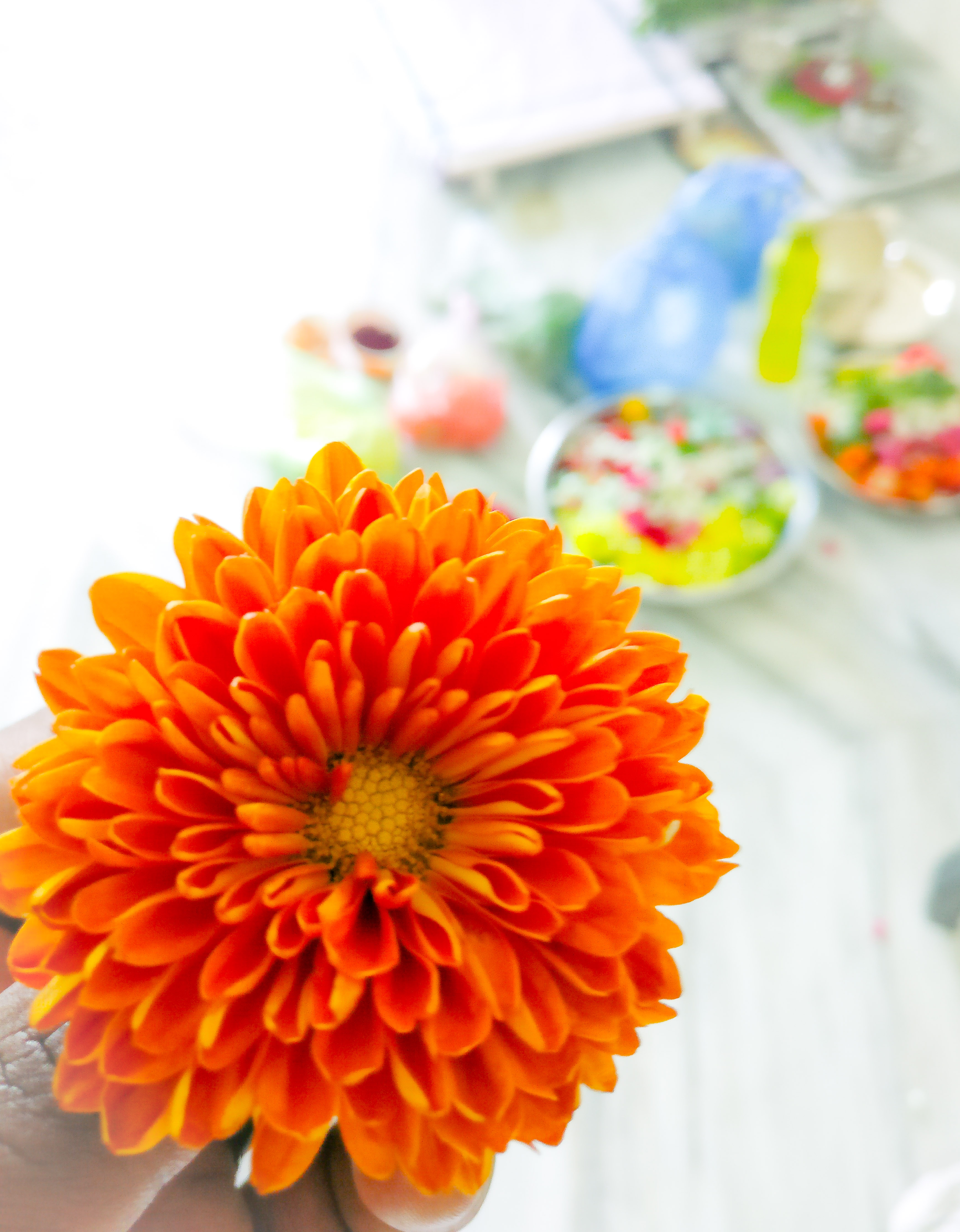 Orange Dahlia in Guntur Andhra pradesh.